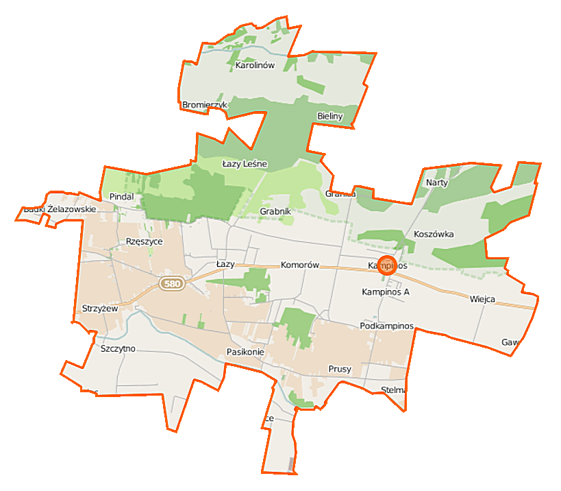 Map of Gmina Kampinos, Poland This map of Kampinos (gmina) was created from OpenStreetMap project data, collected by the community. This map may be incomplete, and may contain errors. Don't rely solely on it for navigation. Border coordinates52.335120.3065←↕→20.531752.2148